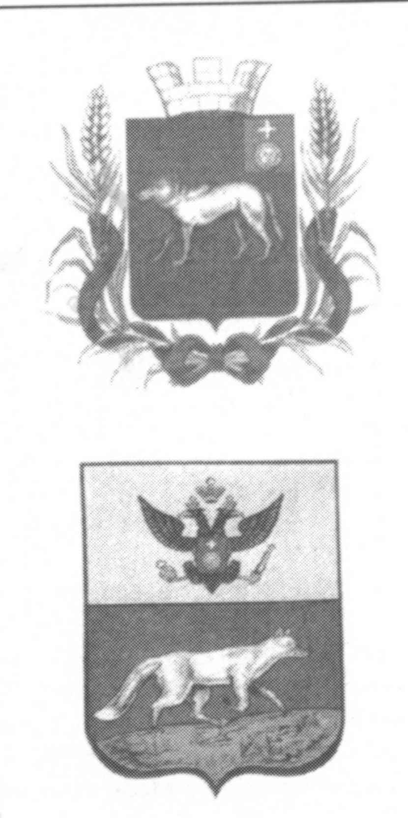 Key words: Letychiv, Coat of Arms The upper was originally presented to the town of Letichev by Stephan Batory in 1569. The Russian Imperial double eagle was added after the Polish Partition in 1792 in the lower. The wolf symbolizes the River Volk (wolf) which runs through the town.